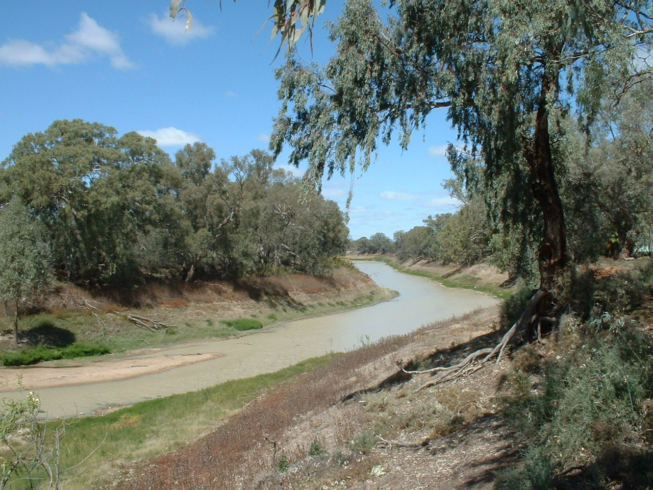 View downstream of the Darling River at Wilcannia, New South Wales